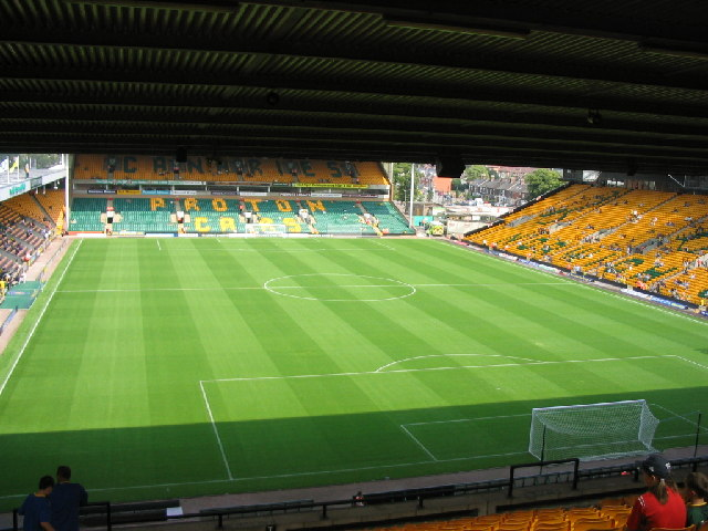 Norwich City Football Ground "Carrow Road"